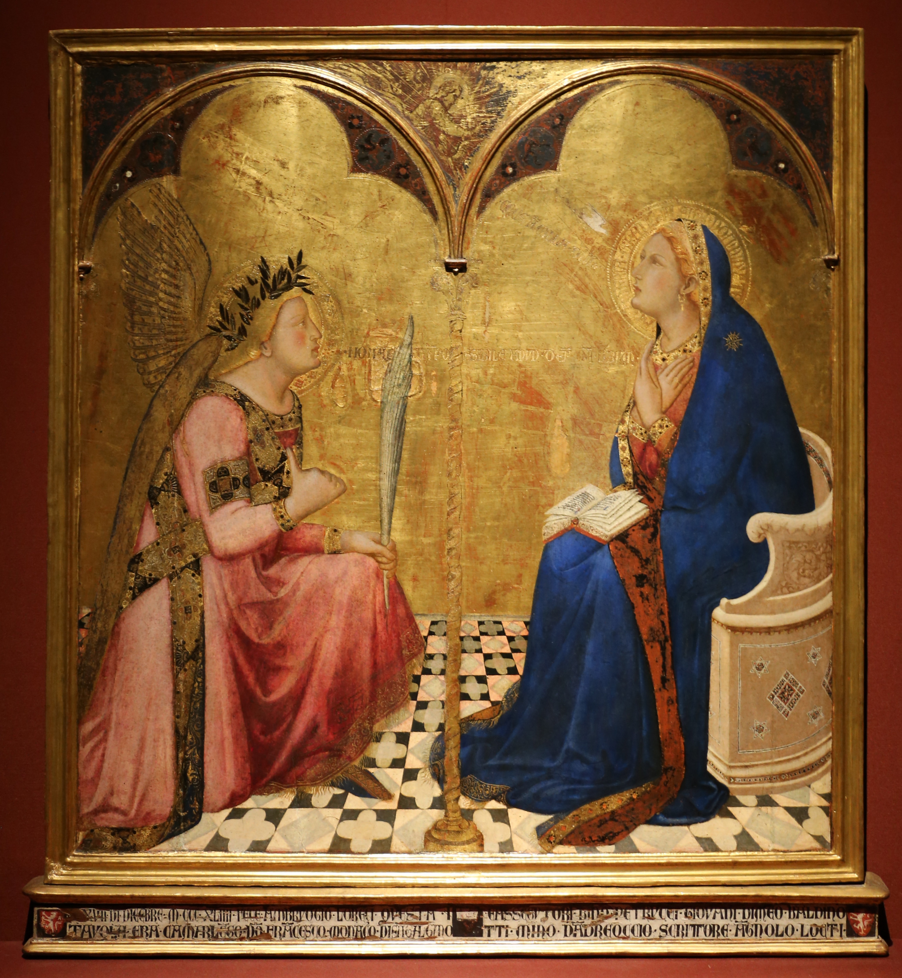 Ambrogio Lorenzetti (2017 exhibition in Siena)